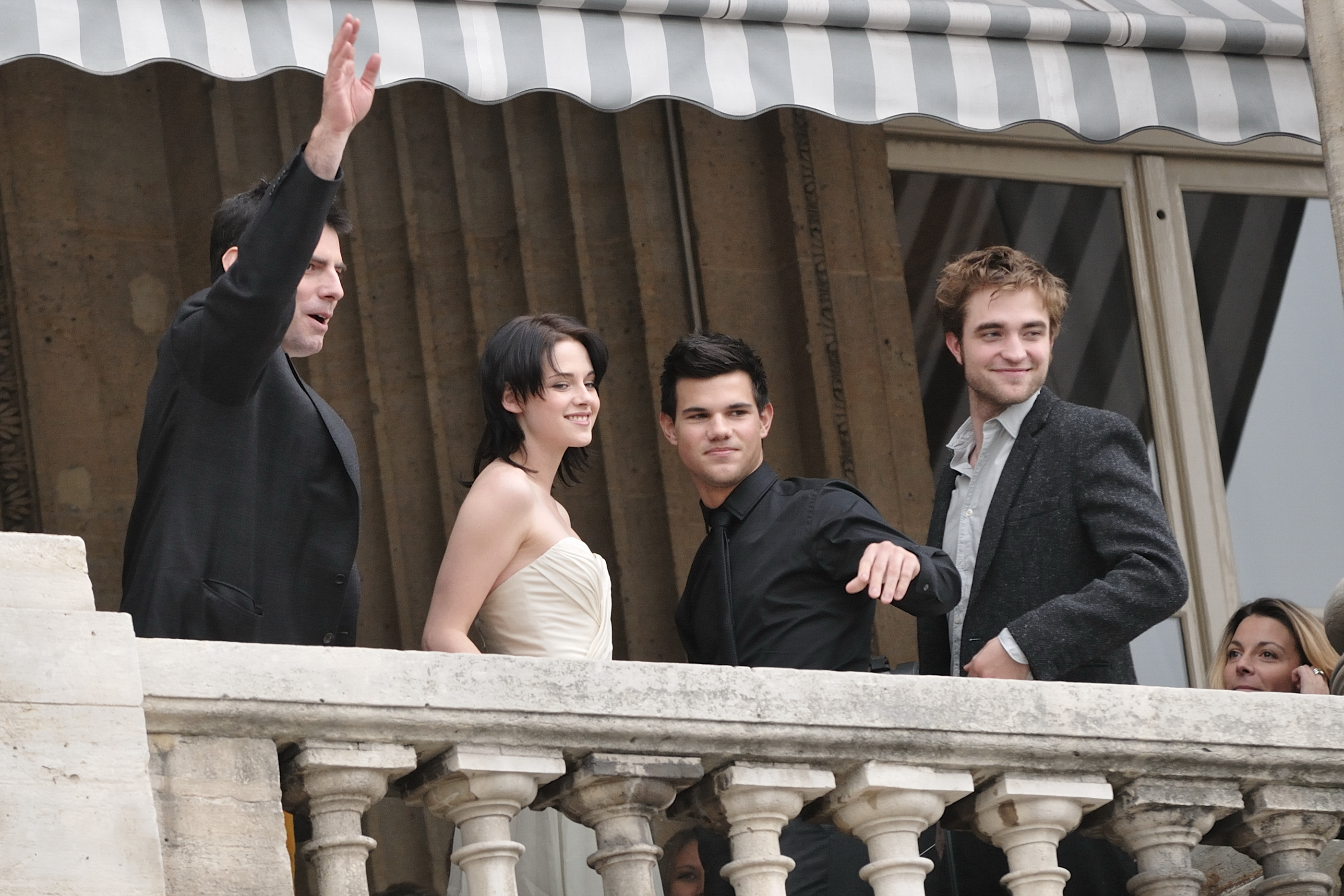 Director Chris Weitz (left), actress Kristen Stewart, actor Taylor Lautner and actor Robert Pattinson (right) attending the Twilight Saga Film New Moon (Twilight Chapitre 2 Tentation) Photocall at the Crillon Hotel in Paris, France on November 10, 2009.